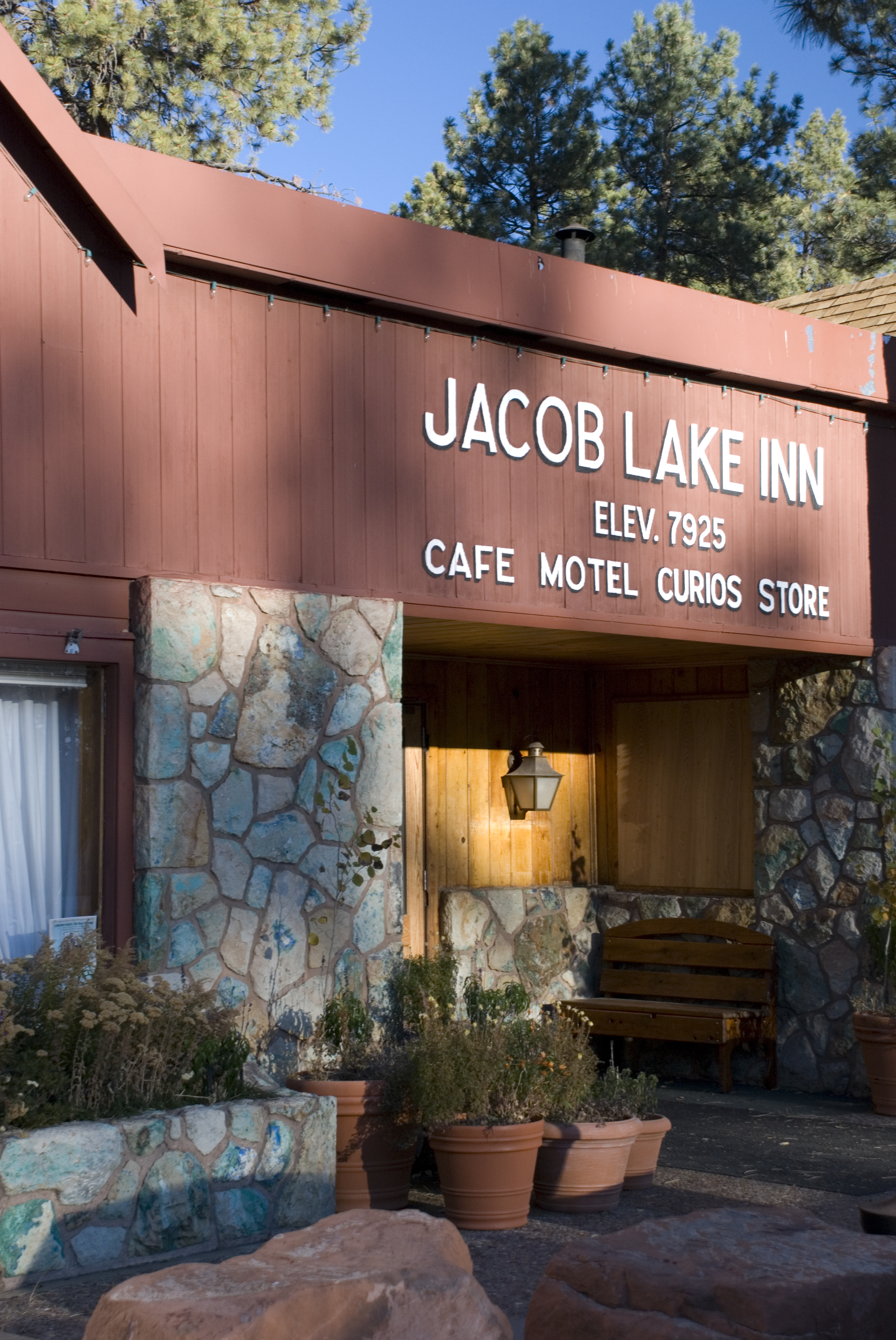 We stayed at Jacob Lake Inn on our trip to Grand Canyon. It's the closest lodging to the Grand Canyon that's open in late October. Earlier in the year you can stay in cabins right on the North Rim as well as Kaibab Lodge.